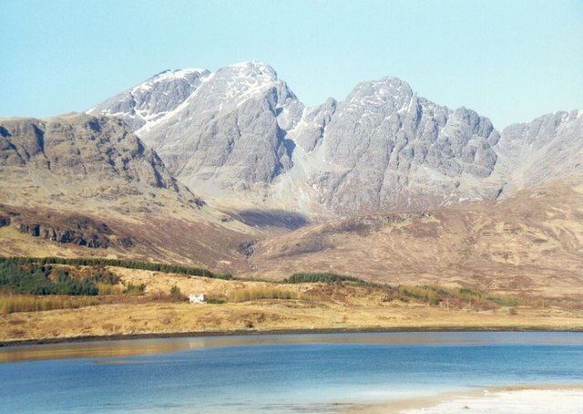 Blaven across Loch Slapin The classic view of Blaven from near Torrin. The aquamarine waters and the white sands may look sub tropical, but the colouring is due to the nearby limestone/marble quarry.